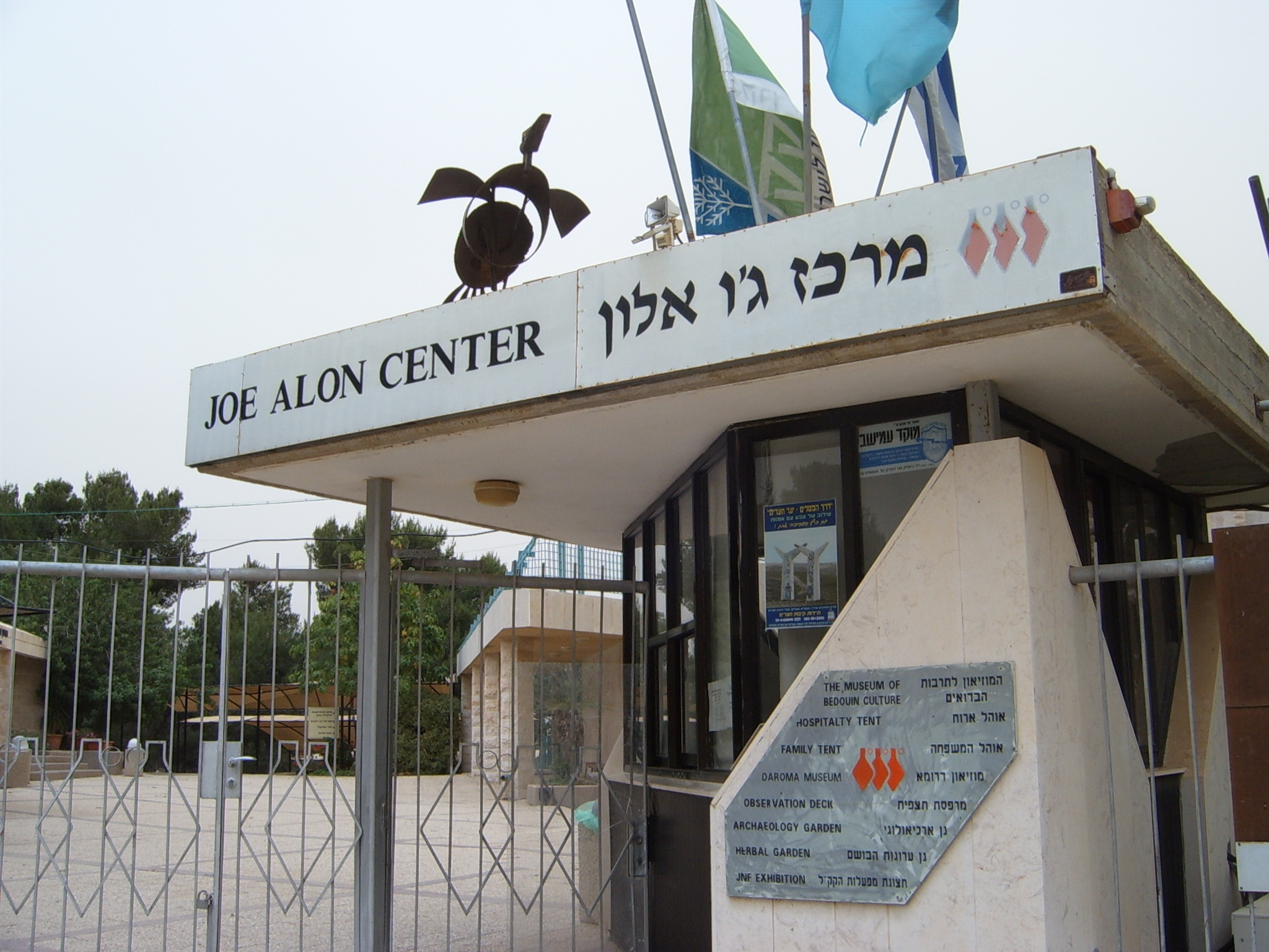 Entrance to the Joe Alon information center in the Lahav forest